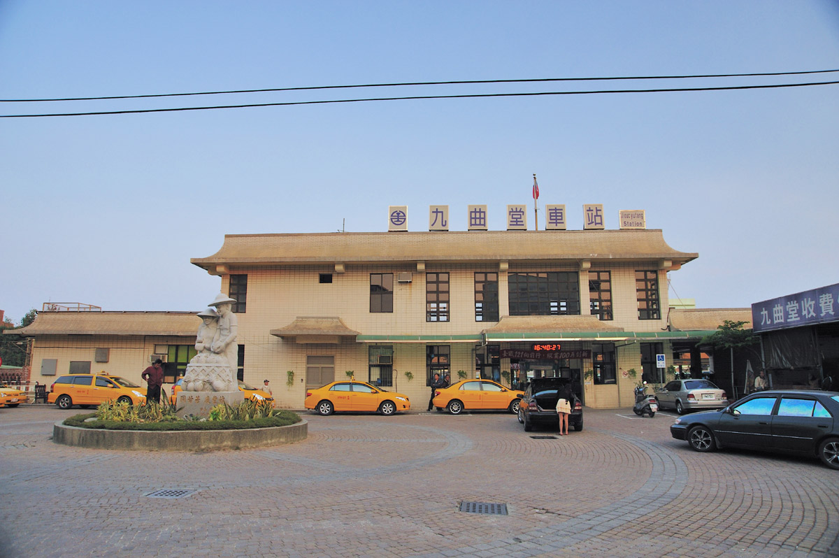 JiouCyuTang Station is a local station of TRA PingTung Line.